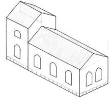 Possible look of the church in Krogsbølle in Denmark